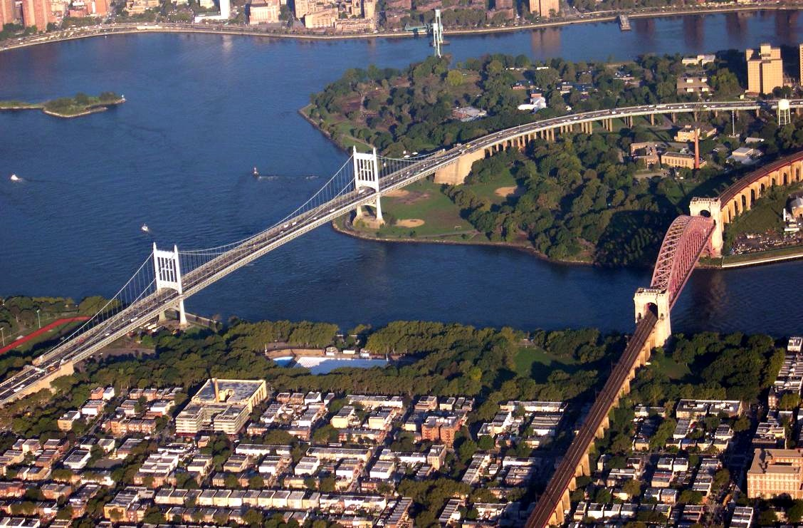 Aerial view of the Hell Gate Bridge and one span of the Triborough Bridge, between Astoria Park, Queens and Wards Island, New York City. The pedestrian Wards Island Bridge can be seen at the top of the photo.